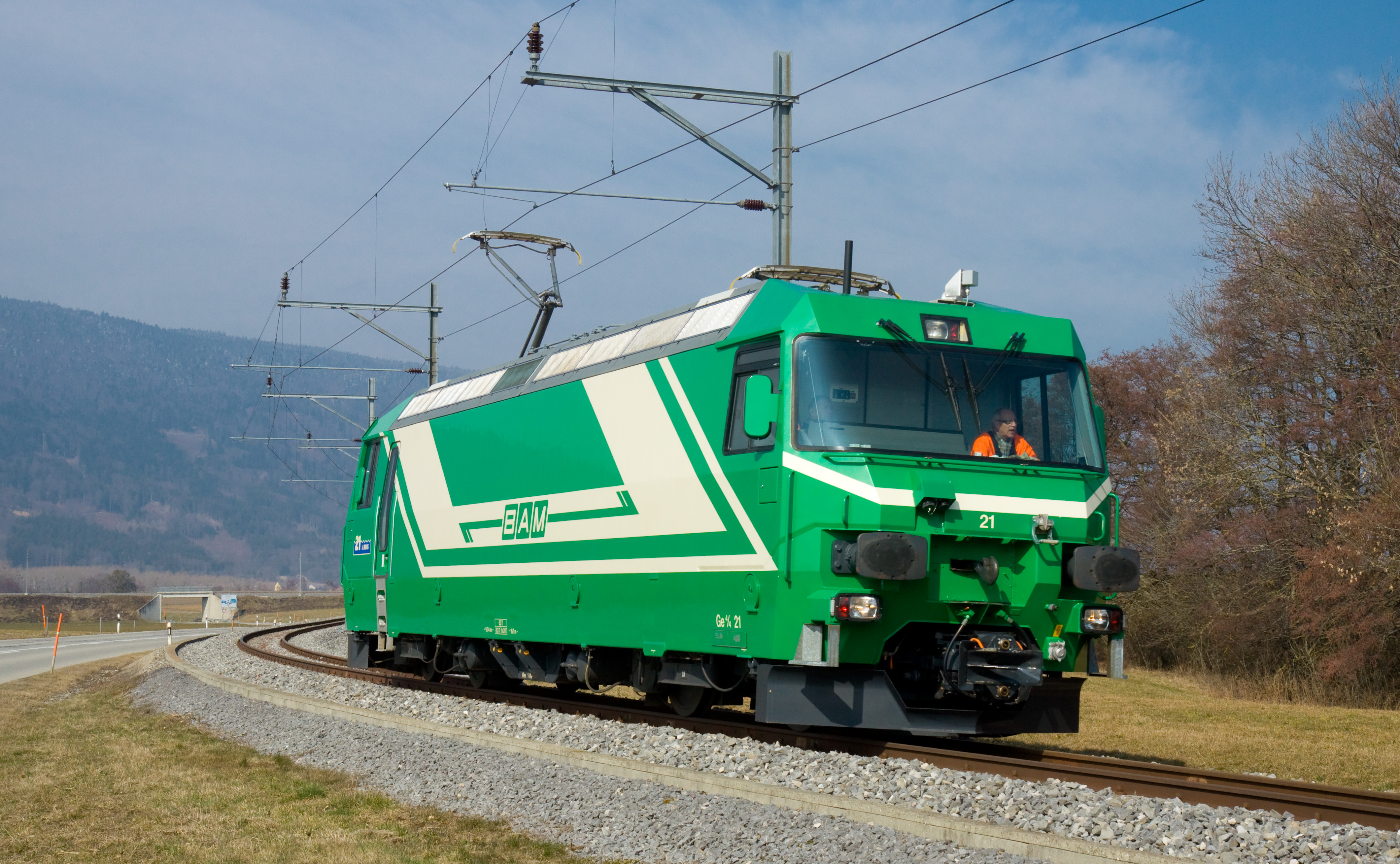 Narrow gauge Ge 4/4 III locomotive operated by Chemin de fer Bière-Apples-Morges on its way to Bière Casernes to pick up a standard gauge train (on carrier trucks) carrying vehicles of the swiss army. Note the standard gauge coupler and buffers, it fits to standard gauge cars on carrier trucks.